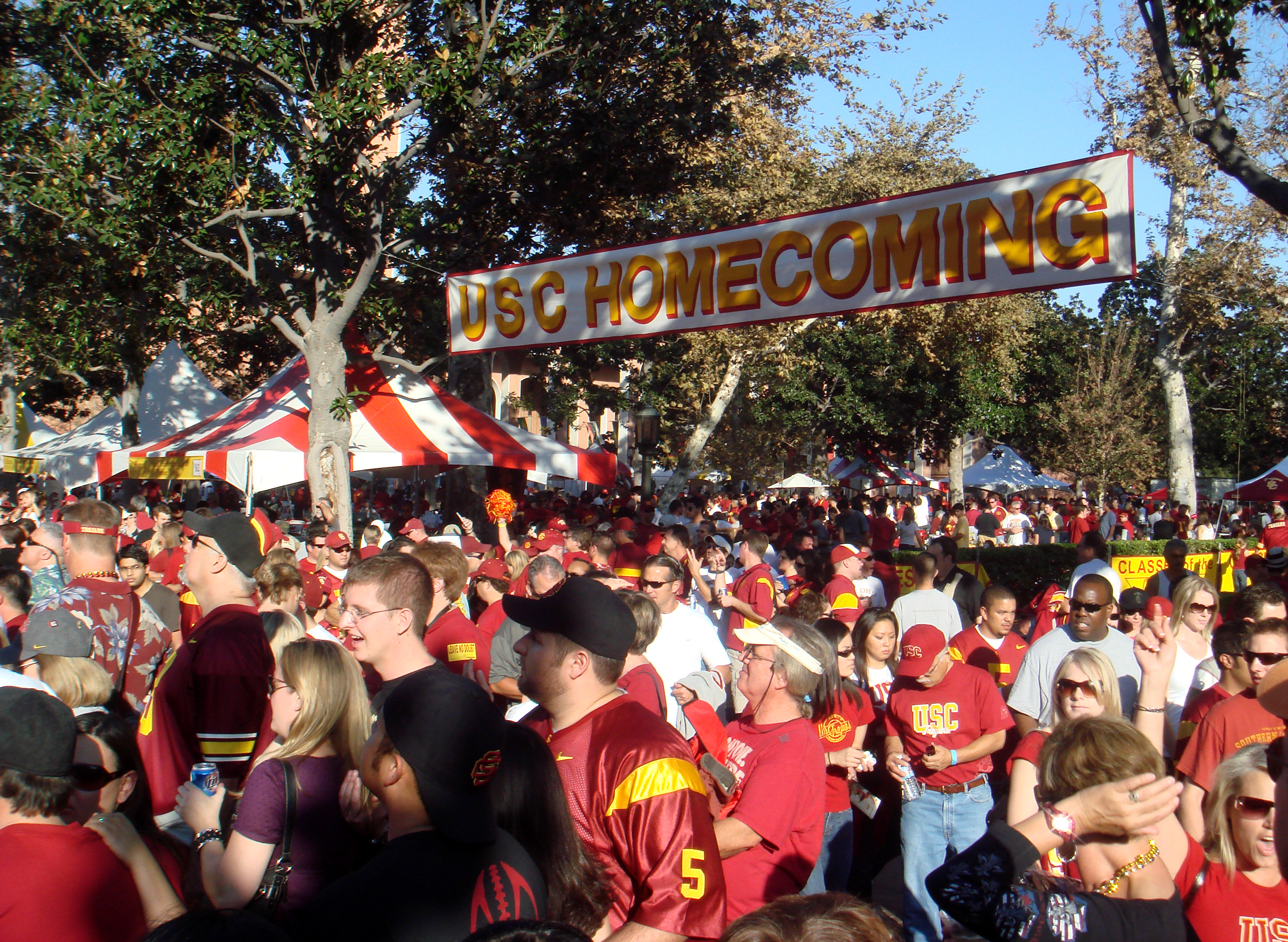 Homecoming at the University of Southern California. Later the Oregon State Beavers visit the USC Trojans at the L.A. Coliseum on November 3, 2007; USC would win, 24-3.